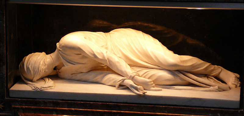 Stefano Moderno, "Saint Cecilia," 1599, church of St. Cecilia, Trastevere, Rome In the sculpture, St. Cecilia extends three fingers with her right hand and one with her left, testifying to the Trinity. The sculptor attested that this was how the saint's body looked when her tomb was opened in 1599. Photographed at the church of St. Cecilia, Trastevere, by Richard Stracke. Please credit the photographer and the church.